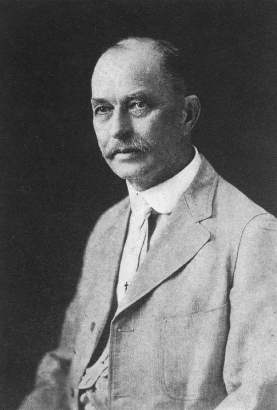 A photo of American mycologist Curtis Gates Lloyd.